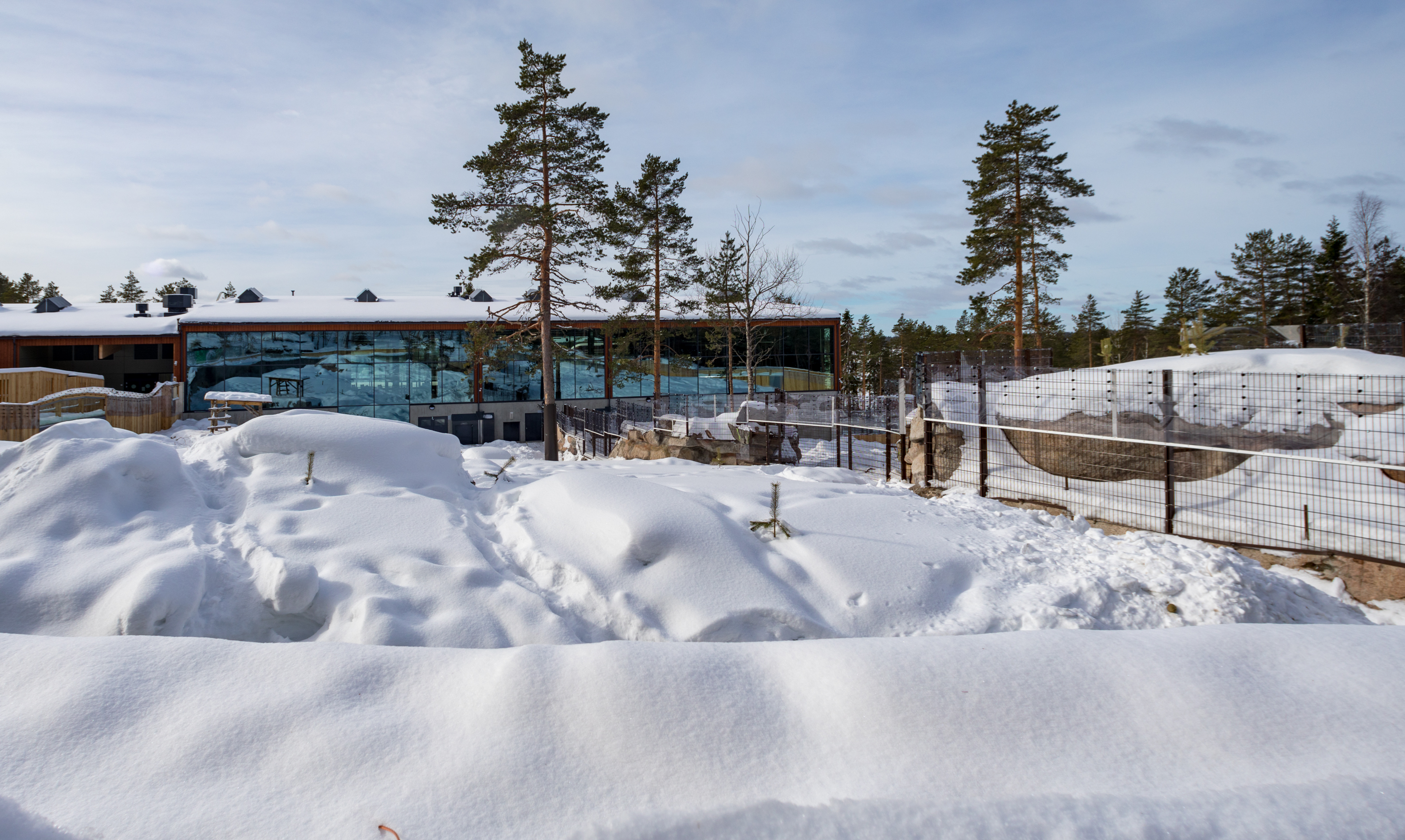 The Snowpanda House of Ähtäri Zoo. Upon examining the complex in November 2017, the top experts of China’s State Forestry Administration’s panda centre stated that the building and the outside enclosures are the best outside of China. The Snowpanda House includes a viewing space where the public can see the pandas spending time in their outdoor and indoor enclosures. (ahtarizoo.fi) There are two pandas, male (Pyry) and female (Lumi). They don't live together, not yet. They arrived to Finland from China in January 2018.